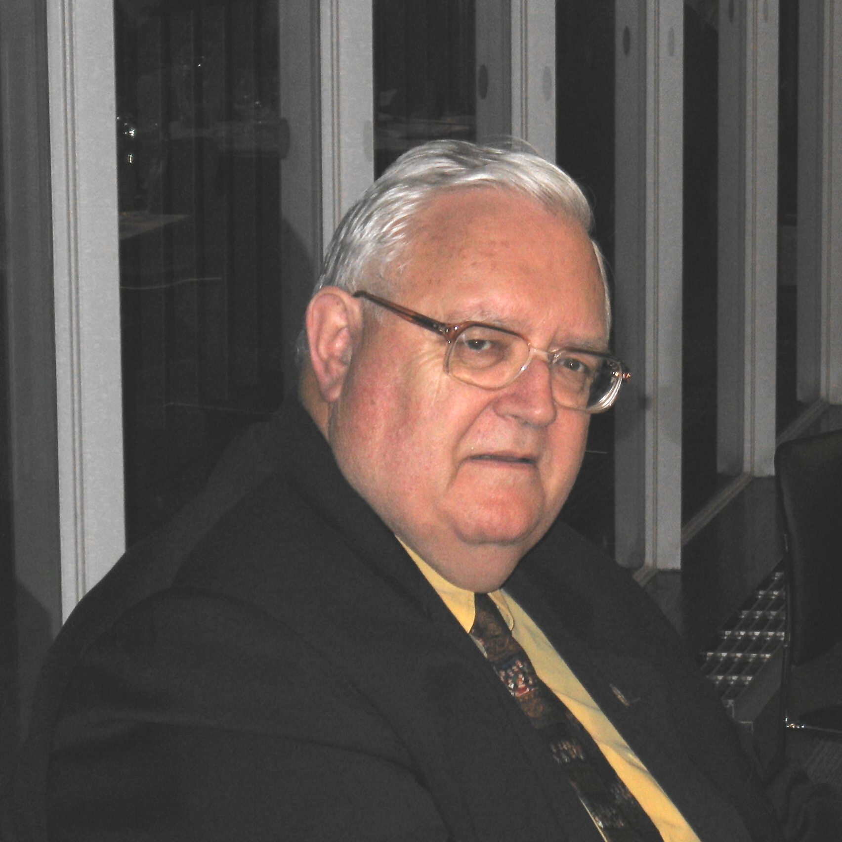 Jonathan Hunt in the penthouse at New Zealand House.